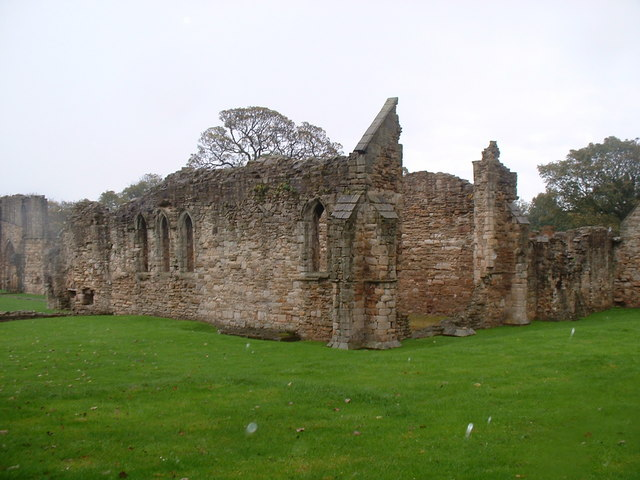 Basingwerk Abbey Cistercian abbey dating back to the 12th century.